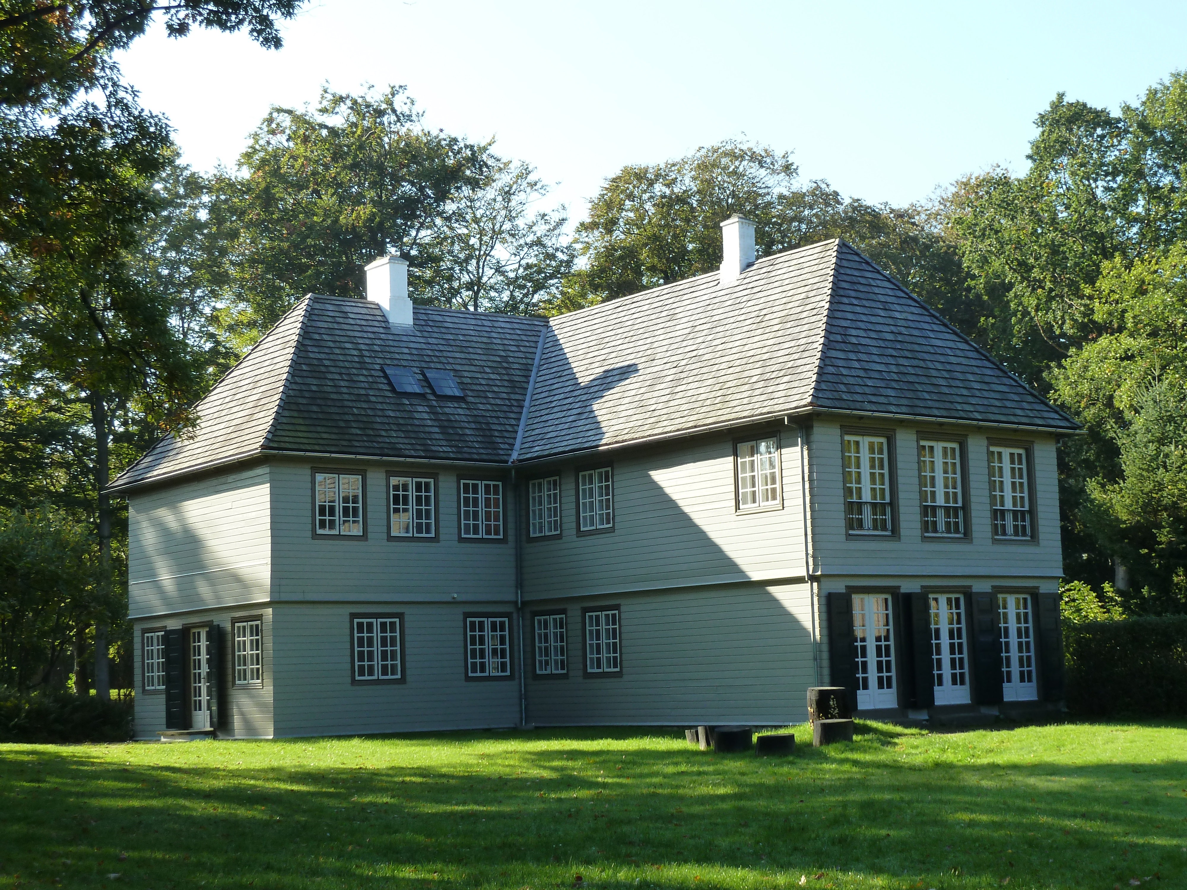 Munkeruphus north of Copenhagen, Denmark